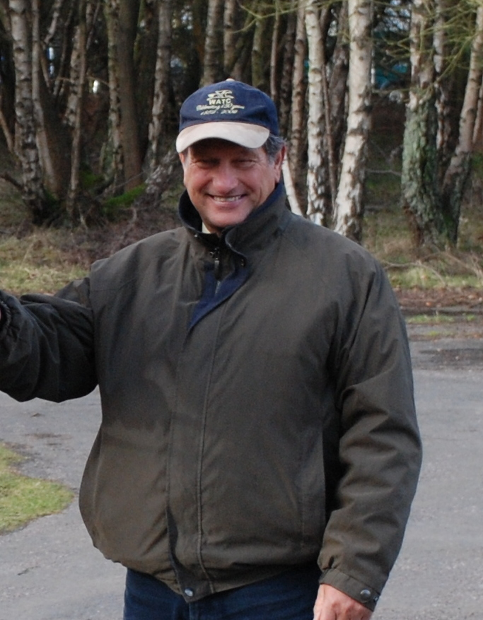 Ginger meets Bob Champion (Cannock Chase STARS ride 2008)